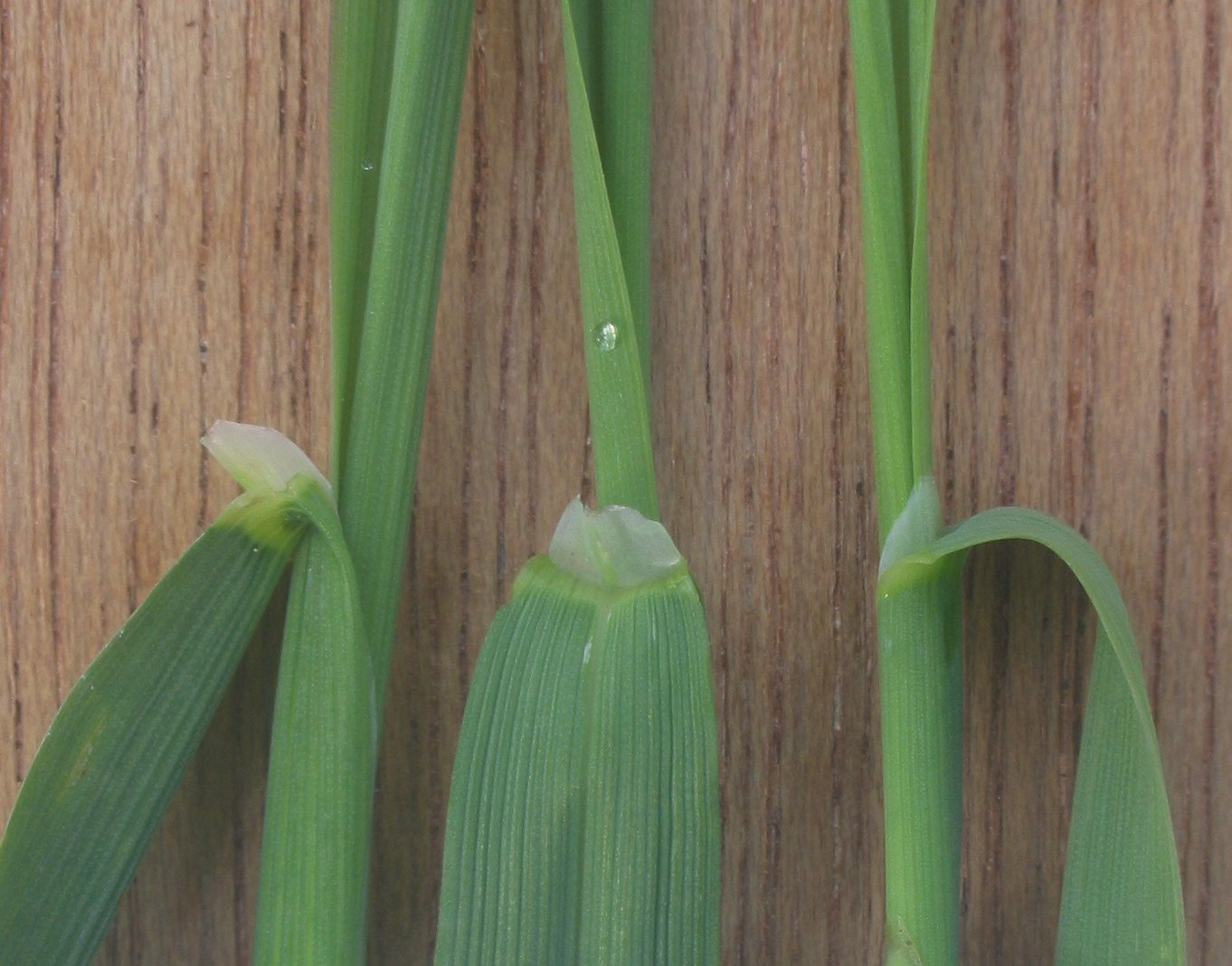 Agrostis gigantea ligula